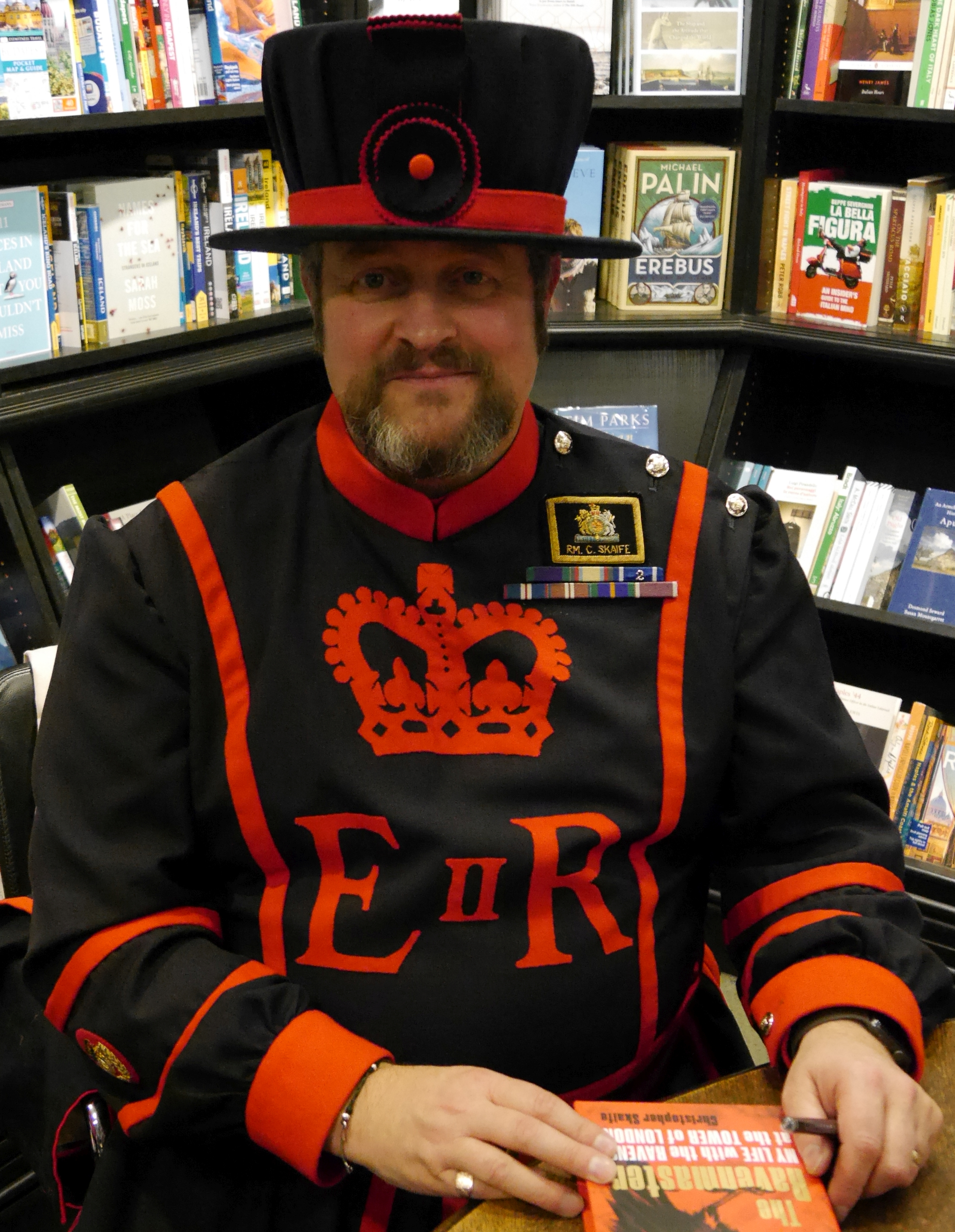 Christopher Skaife, Hatchards bookshop, London, 29 November 2018.